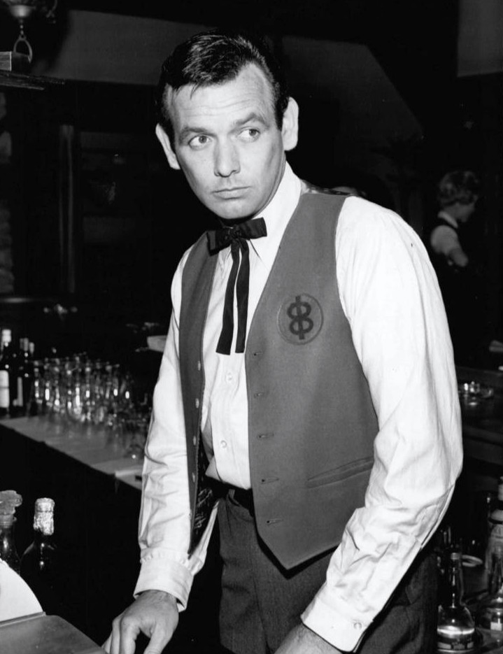 Photo of David Janssen as Richard Kimble from the first episode of the television program The Fugitive, "Fear in a Desert City". Kimble has been on the run for 6 months when he gets a job as a bartender in Tucson, Arizona, under an assumed name. When he becomes romantically involved with a woman, her estranged husband wants him either dead or out of town.